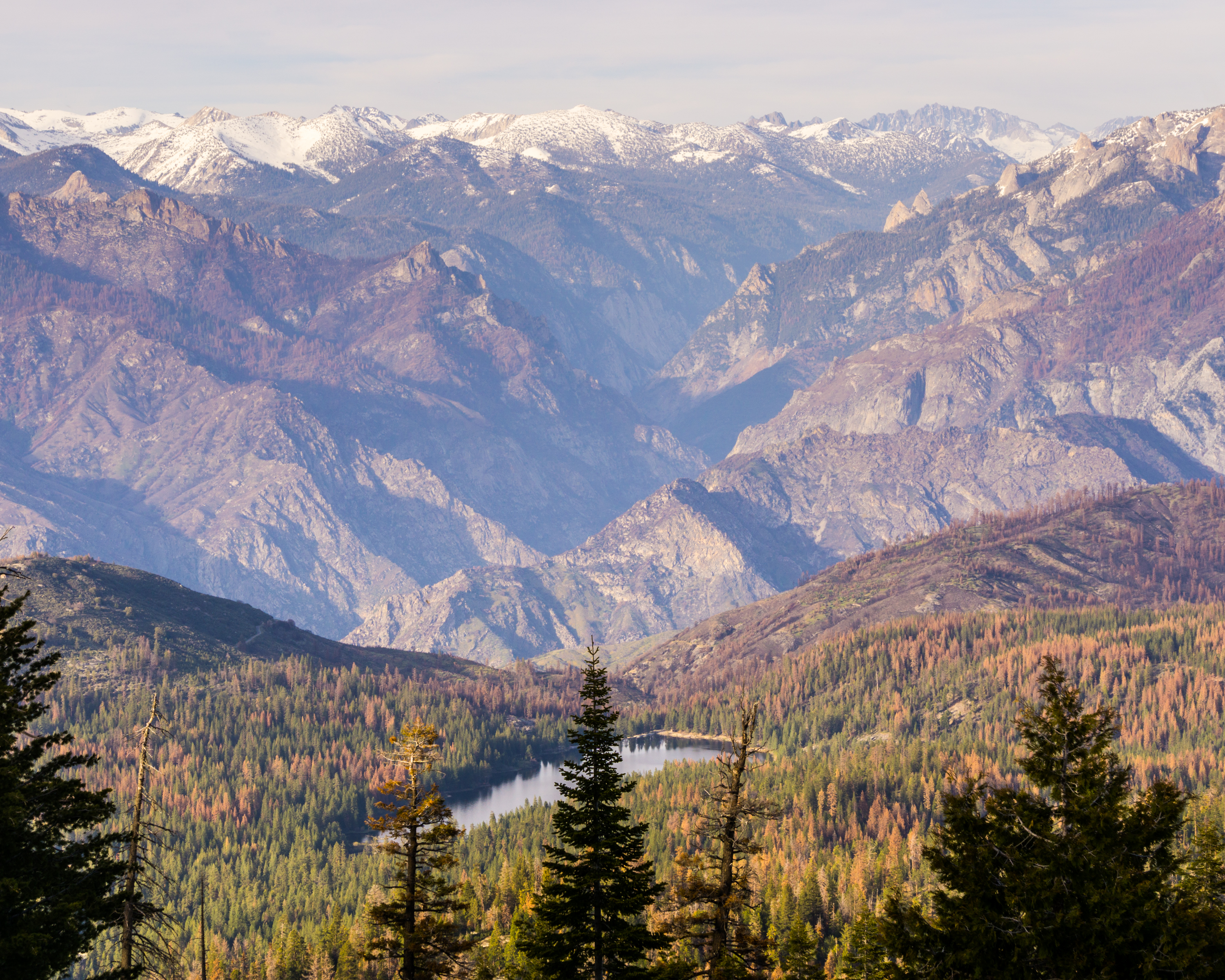 This image show extensive mountain pine beetle infestation at Hume Lake, California in April 2016.